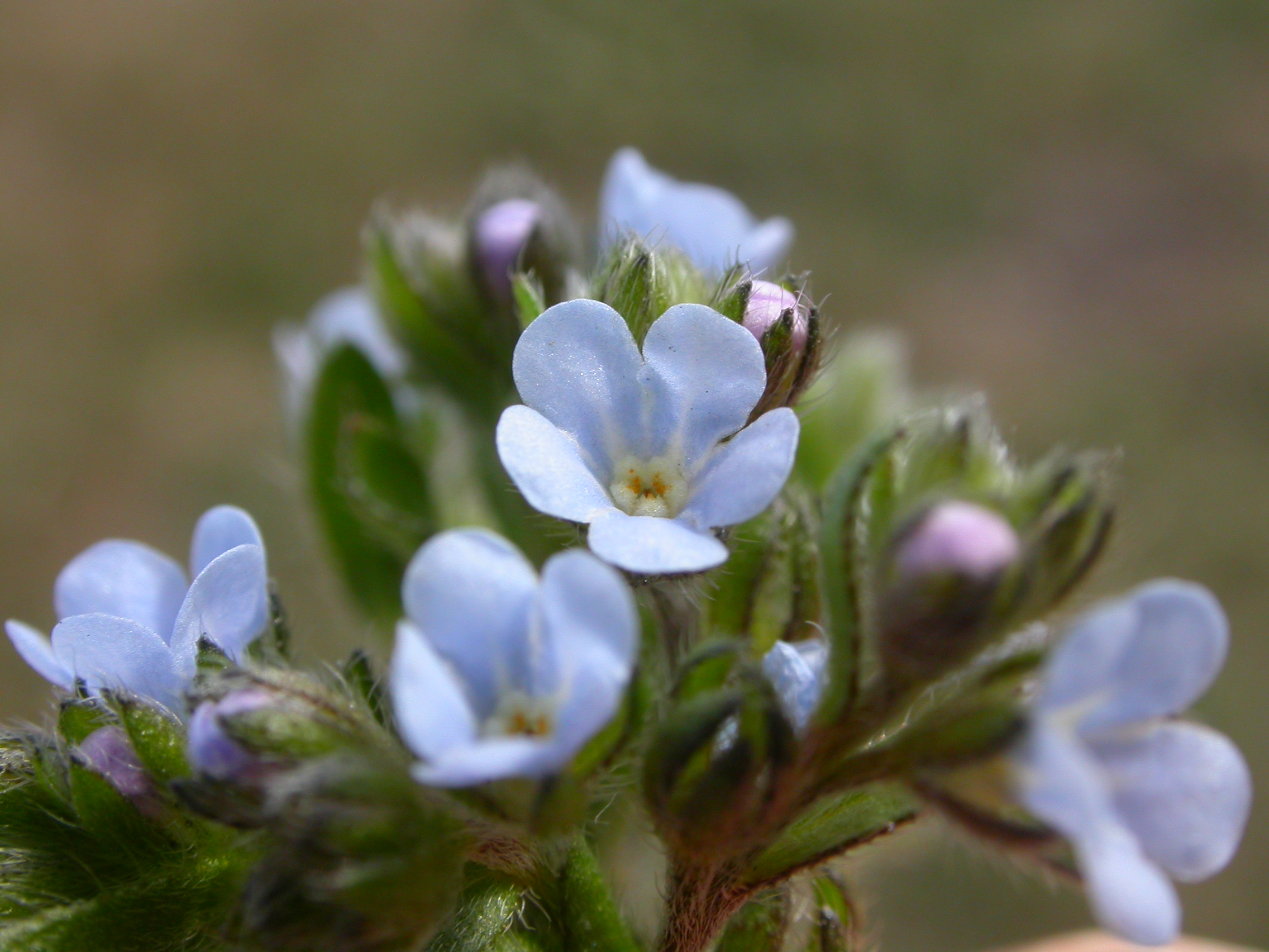 Even the small flowers of this species have the characteristic floral construction of the more showy species of the Boraginaceae.